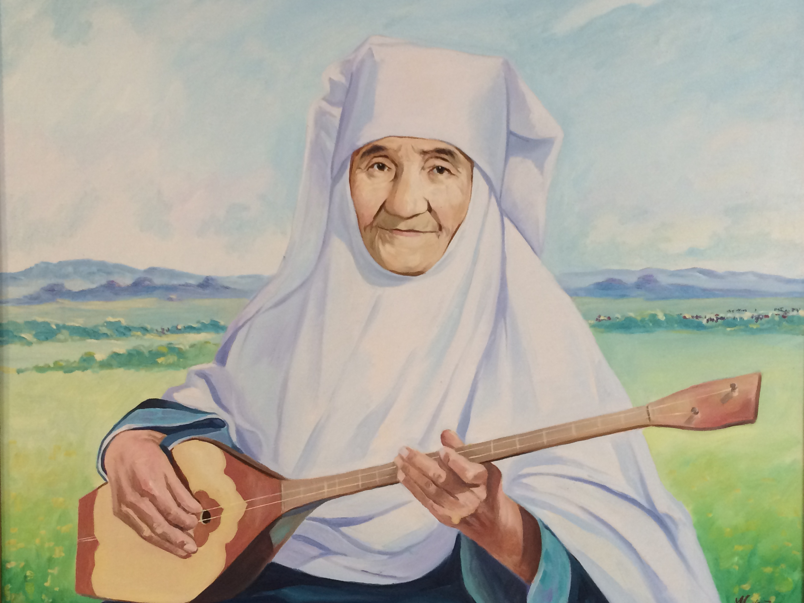 Суретші: Манай